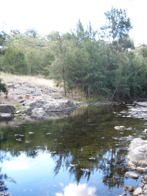 This is a photo of the Turon River close to Sofala on the road to Hill End.